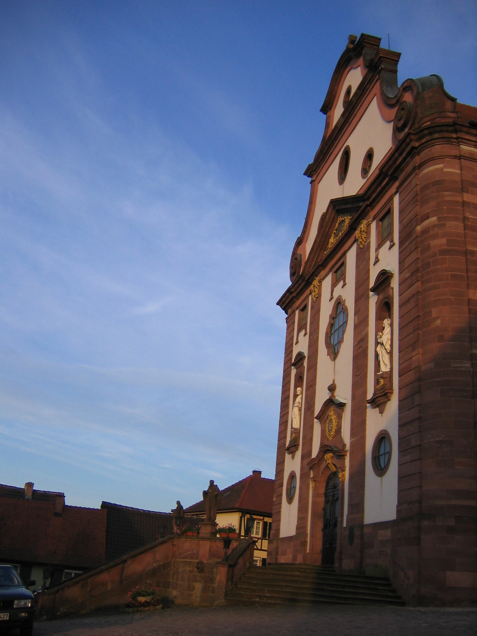 Ettenheim, Baden-Württemberg, Germany